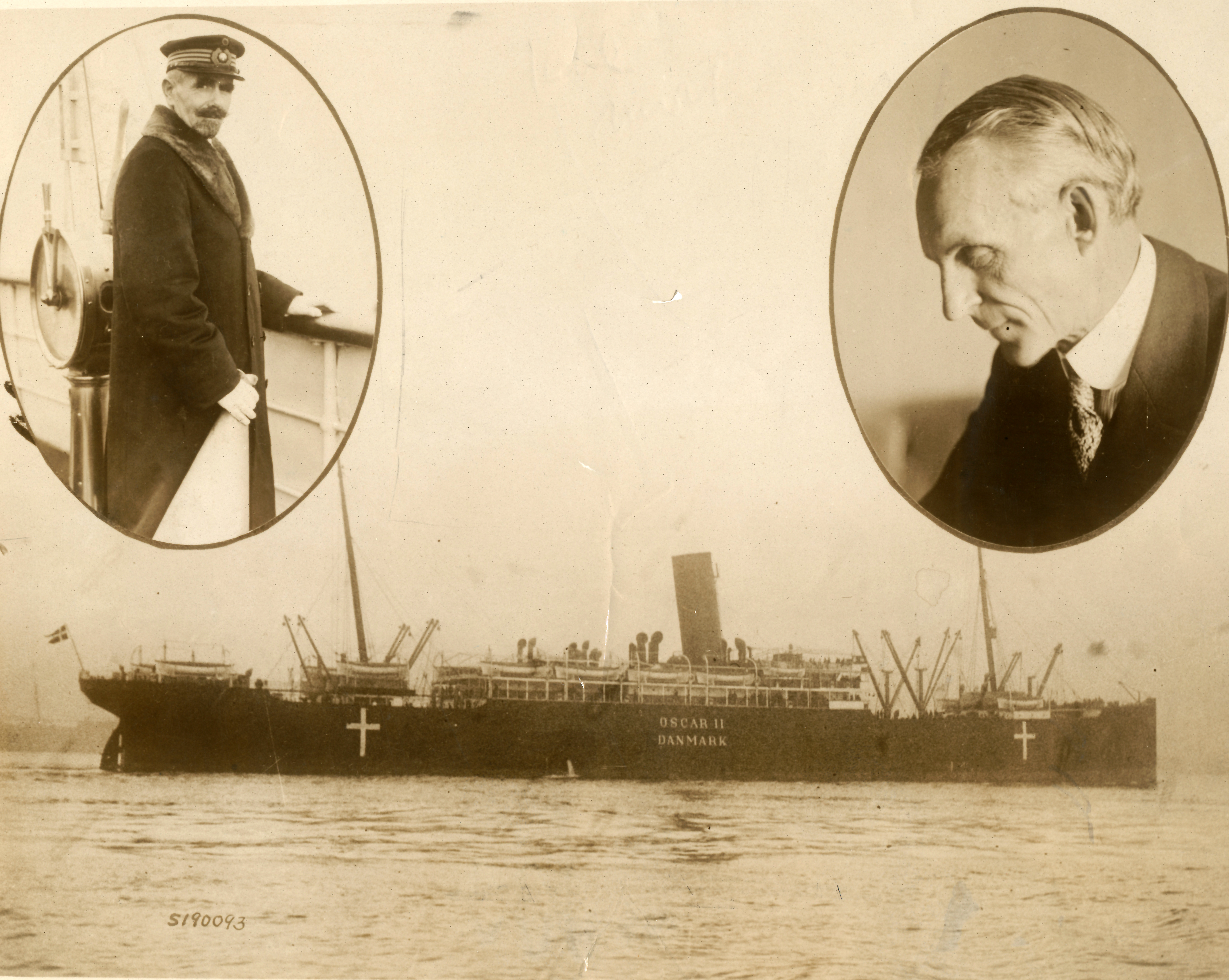 Scandinavia – America Line passenger steamship Oscar II as the Peace Ship in 1915, with portraits of her Captain G.W. Hempel (left) and sponsor Henry Ford (right)